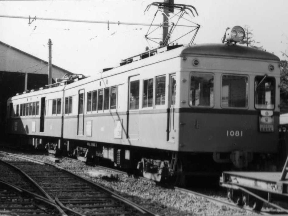 Hiroshima Electric Railway 1080 series tramcar